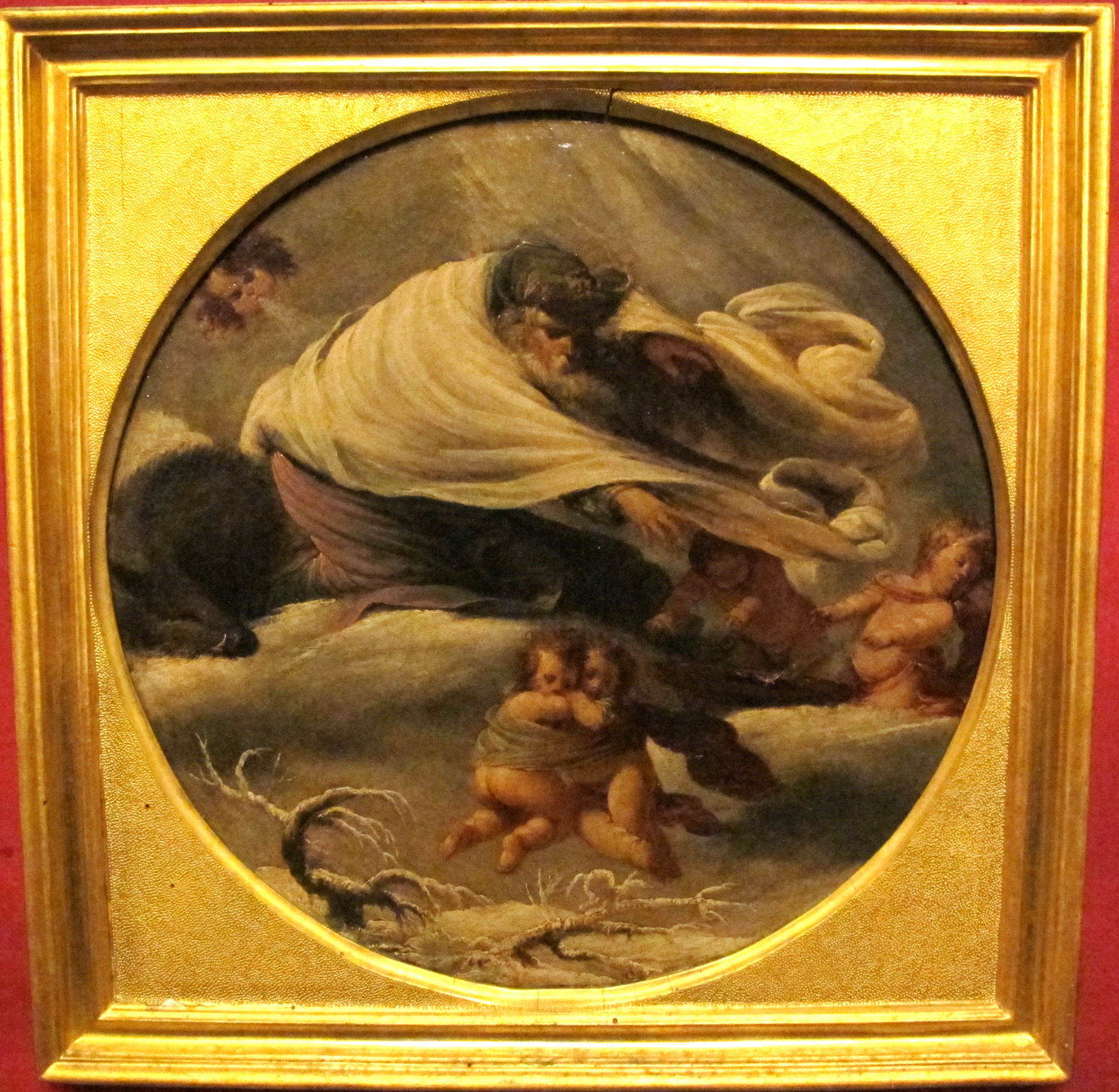 inverno